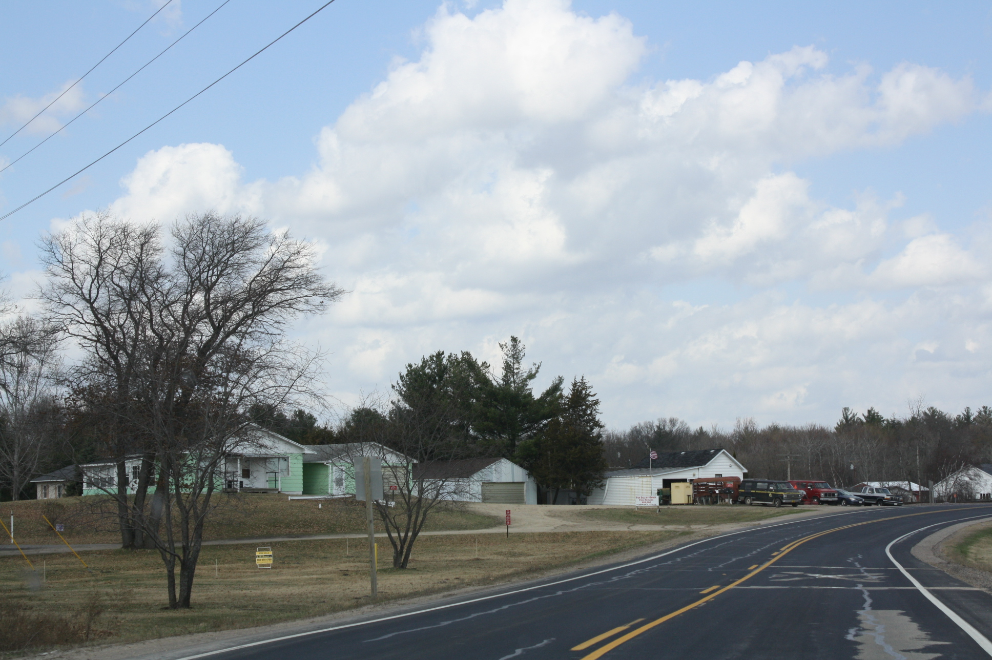 Looking north at Valley Junction, Wisconsin.